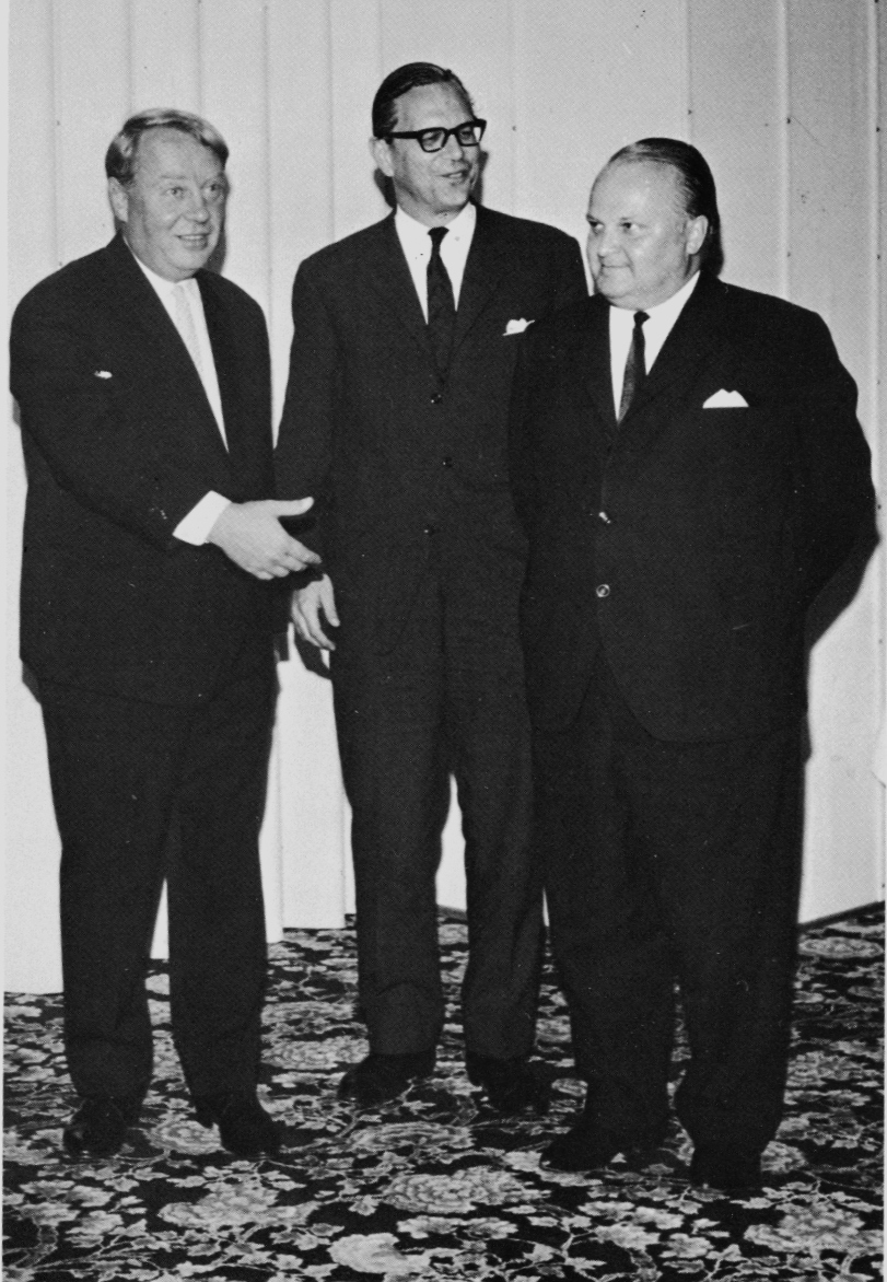 Photograph of the Russian journalist Alexei Ivanovich Adzhubei, Finnish minister Max Jakobson and Soviet embassador A. V. Zakharov.